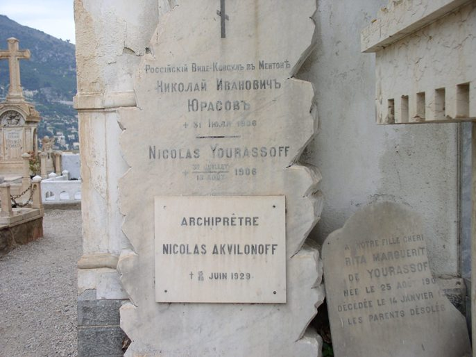 Orthodox cemetery, Menton, France